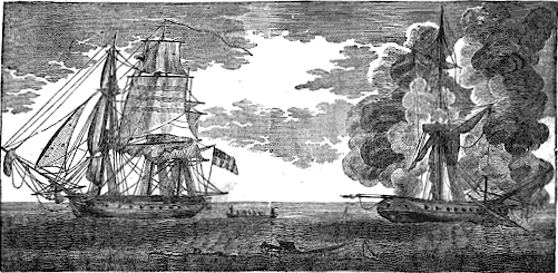 Caption: The Wasp and Reindeer. Engraving by Abel Bowen, from "The Naval Monument."